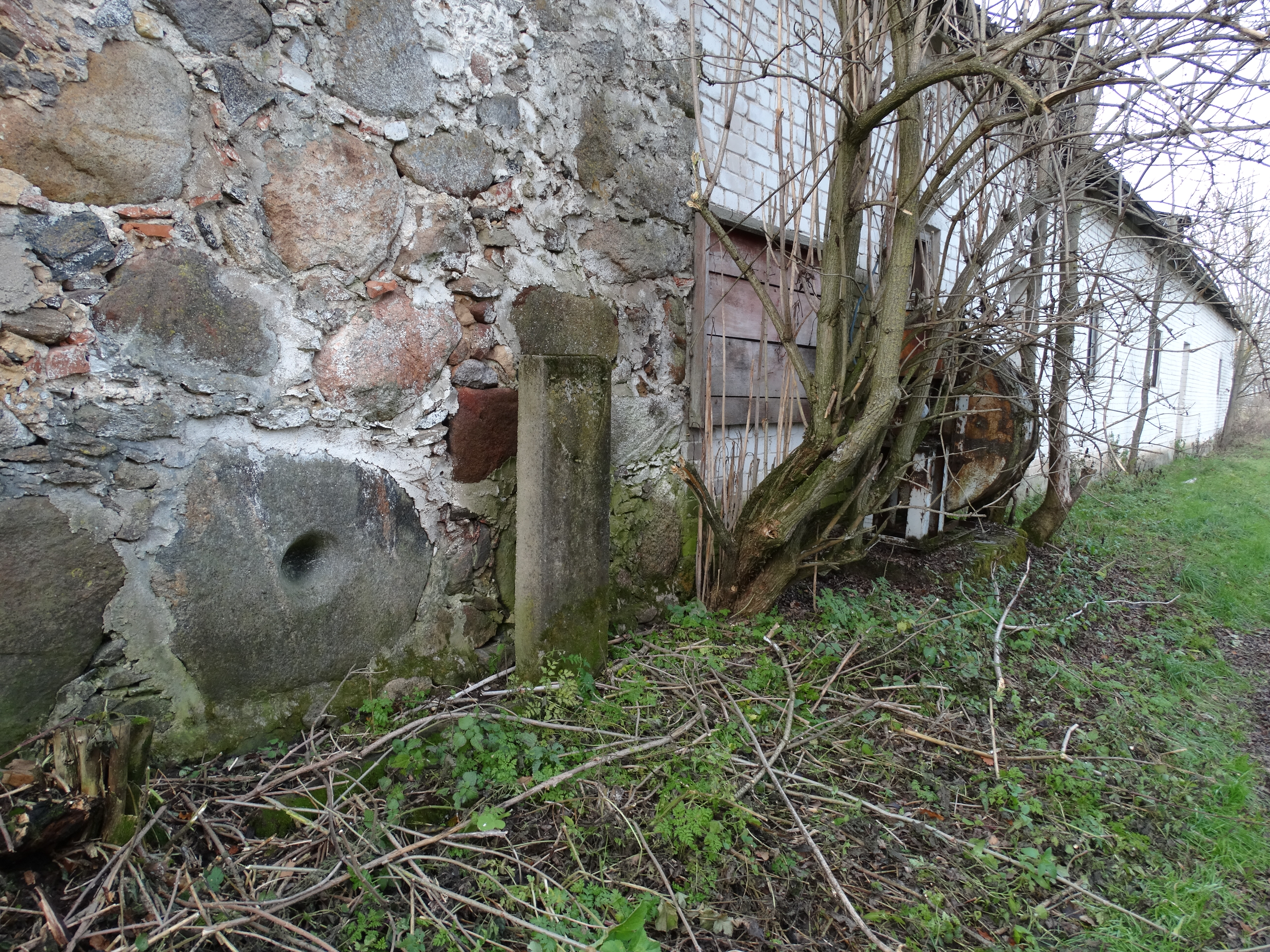 Mythological stone, Didysis Plonėnas, Pakruojis district, Lithuania